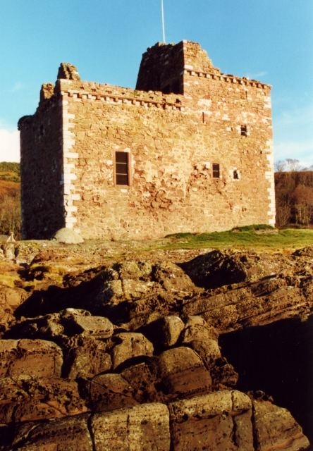 Portencross Castle. This is the castle which was a contender in the television series 'Restoration'. It guards the approach to the Clyde.